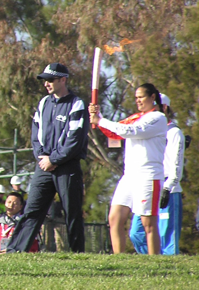 Tania Major with Olympic torch at the 2008 Olympic torch relay Reconciliation Place Canberra